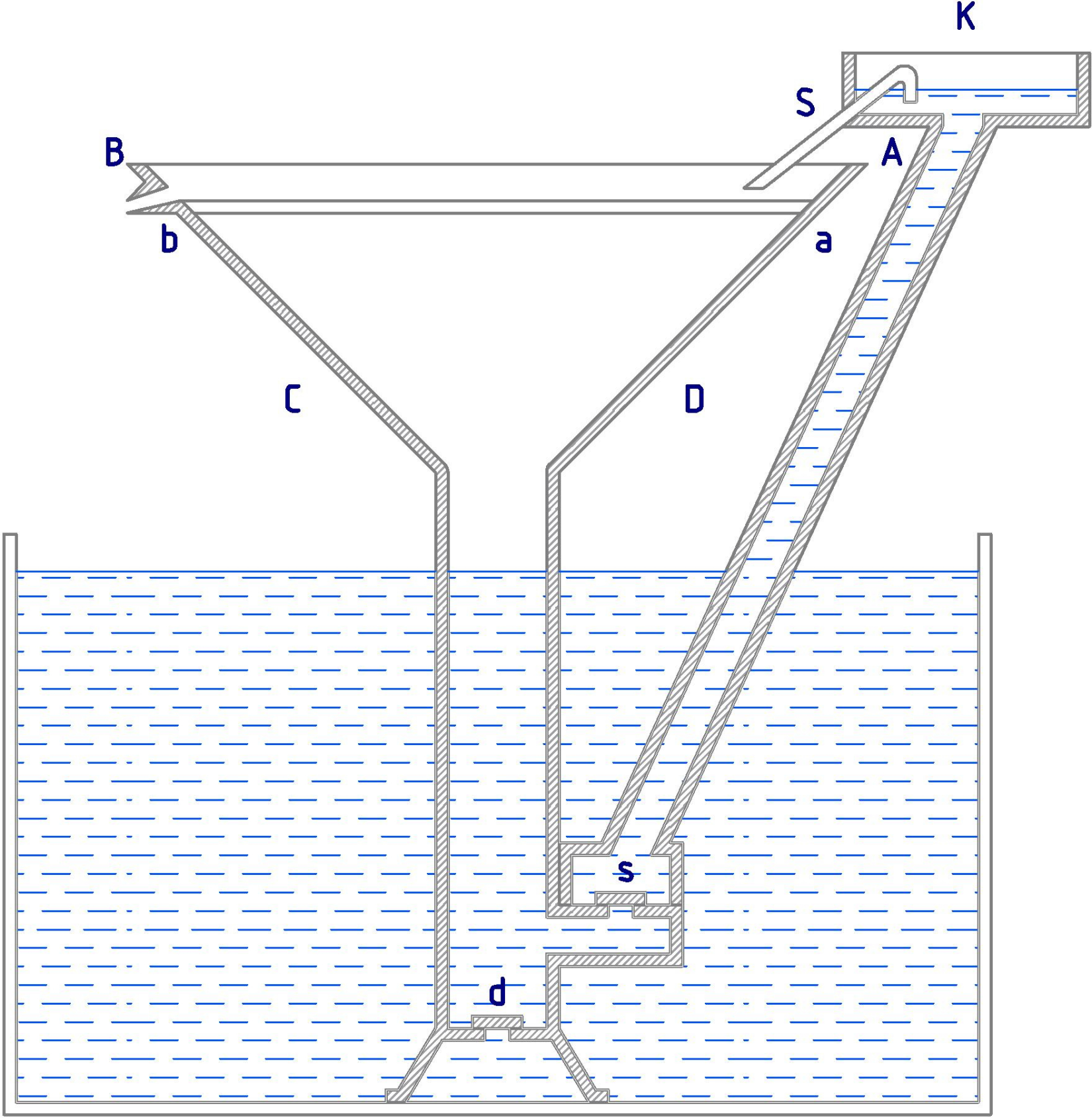 Mouchot pump schema